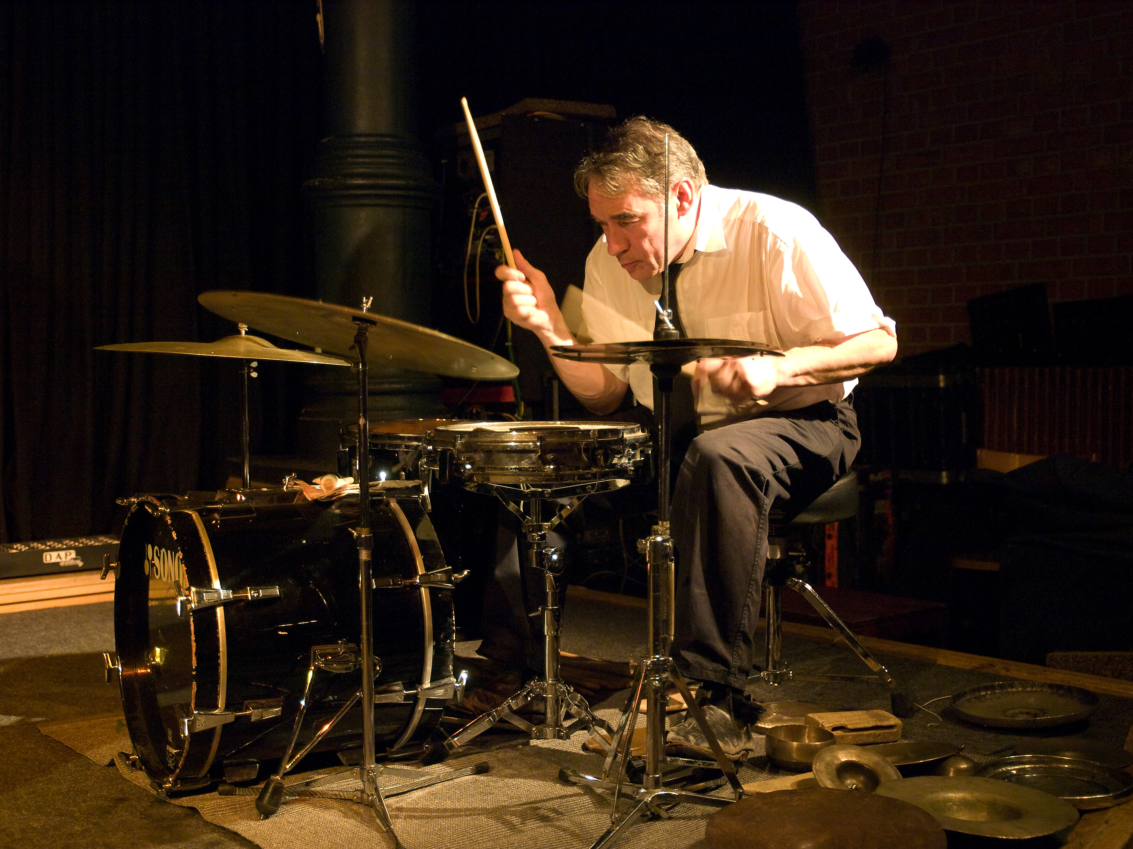 Paul Lovens, drums, picture taken in Jazz club "Unterfahrt" in Munich/Germany